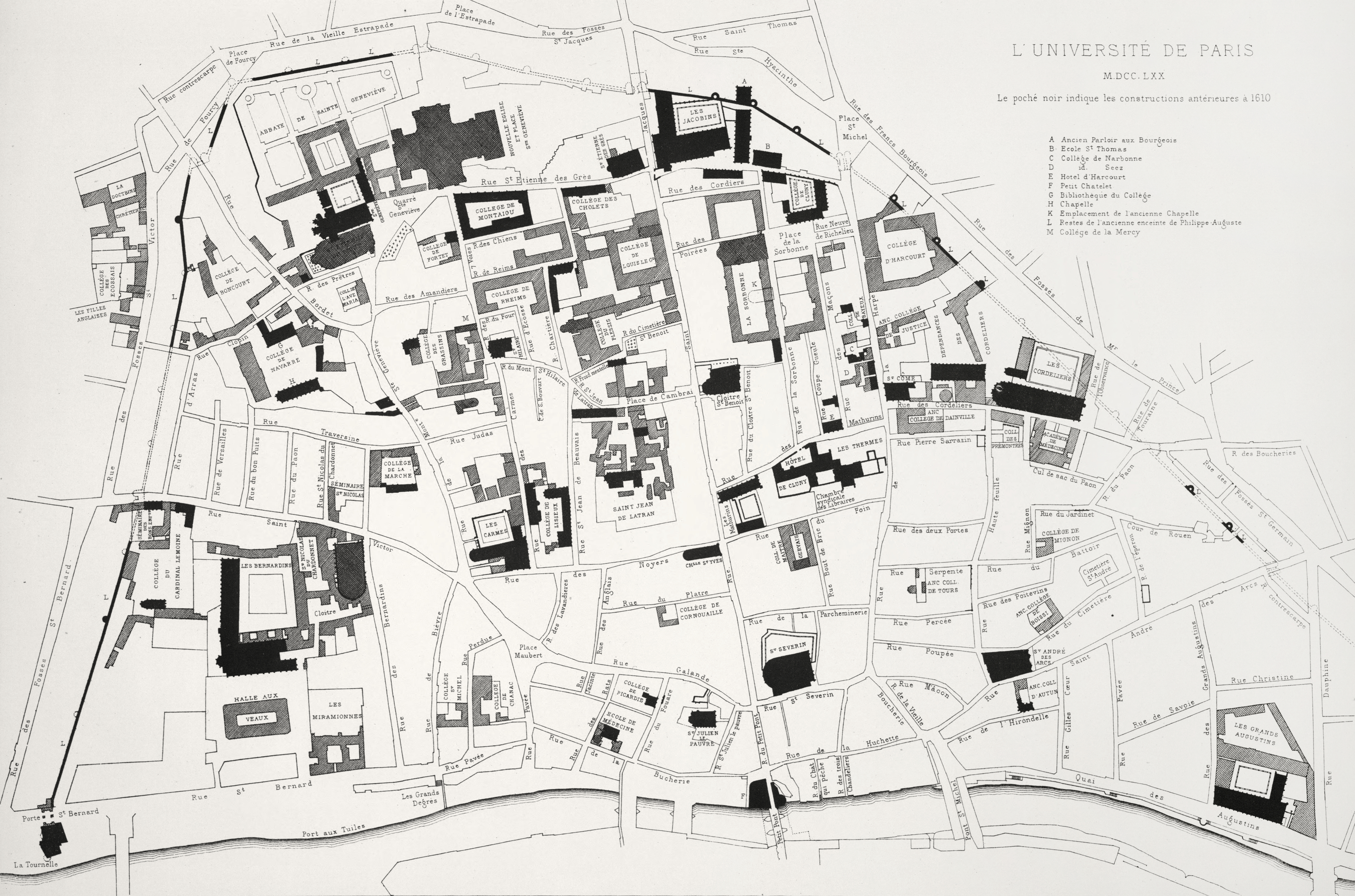 A map detailing the location of the buildings of the Université de Paris in 1770. The buildings shown in black were built before 1610. The overlay shows the same area, in 1880.